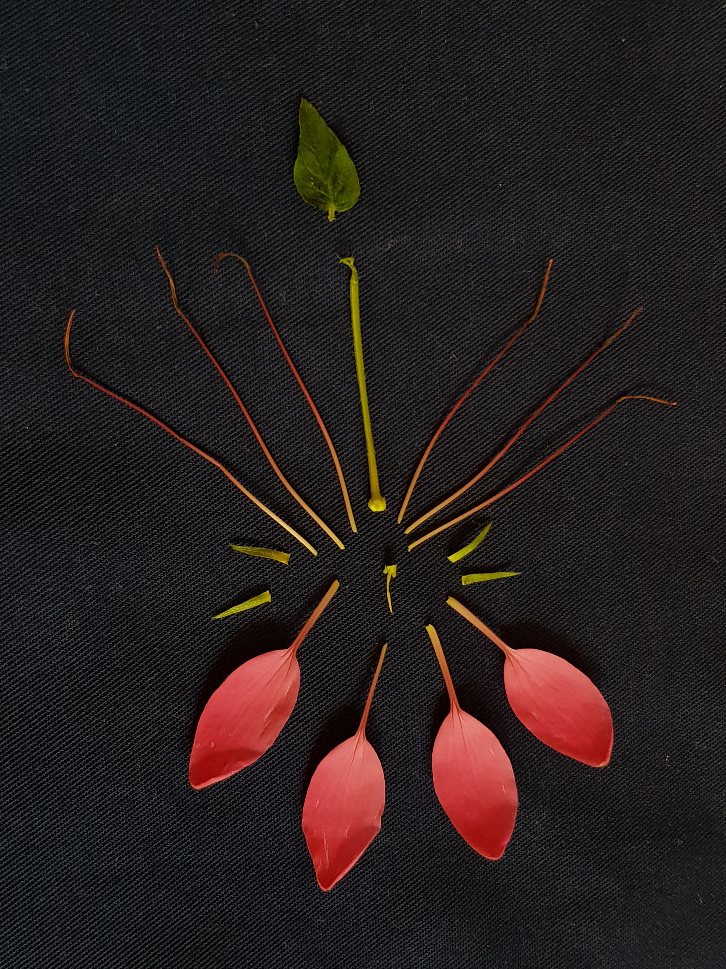 a floral diagram of Cleome spinosa, composed from the floral parts of a real flower